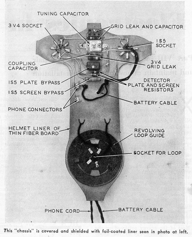 Radio-Electronics, June 1949, Volume 20, Number 9, From page 33. The two tube radio receiver cost $7.95 and was manufactured by the American Merri-Lei Corporation of Brooklyn, N.Y. The radio was powered by an external battery pack.